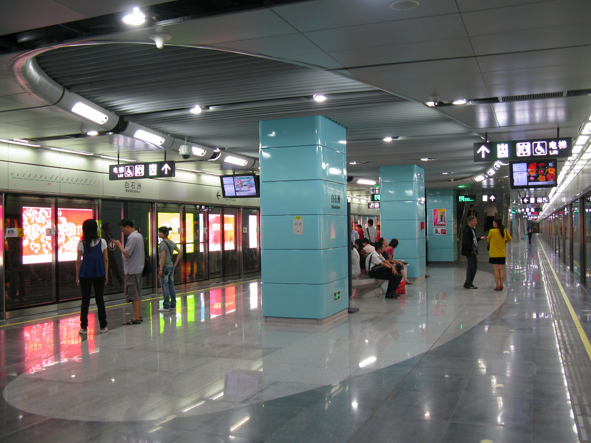 Line 1 Platform of Baishizhou Station, Shenzhen Metro, view towards Hi-Tech Park Station